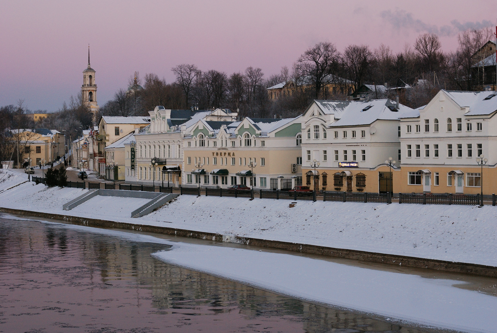 Tvertsa River in Torzhok